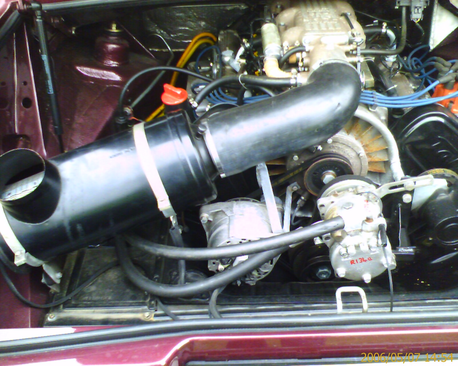 Tatra T613 V8 petrol air cooled engine.